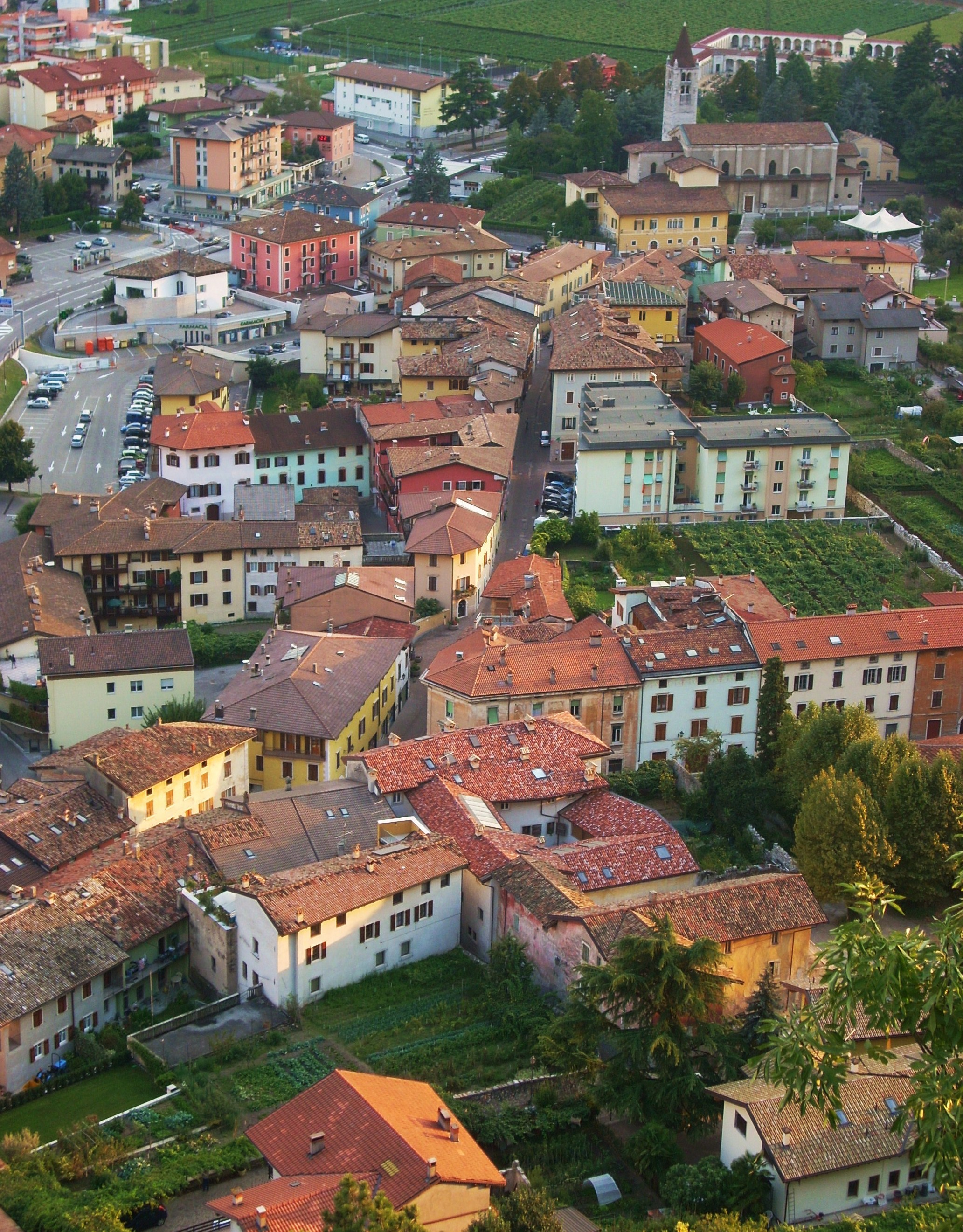 View of the historical center of Mori (Province of Trento, North Italy)